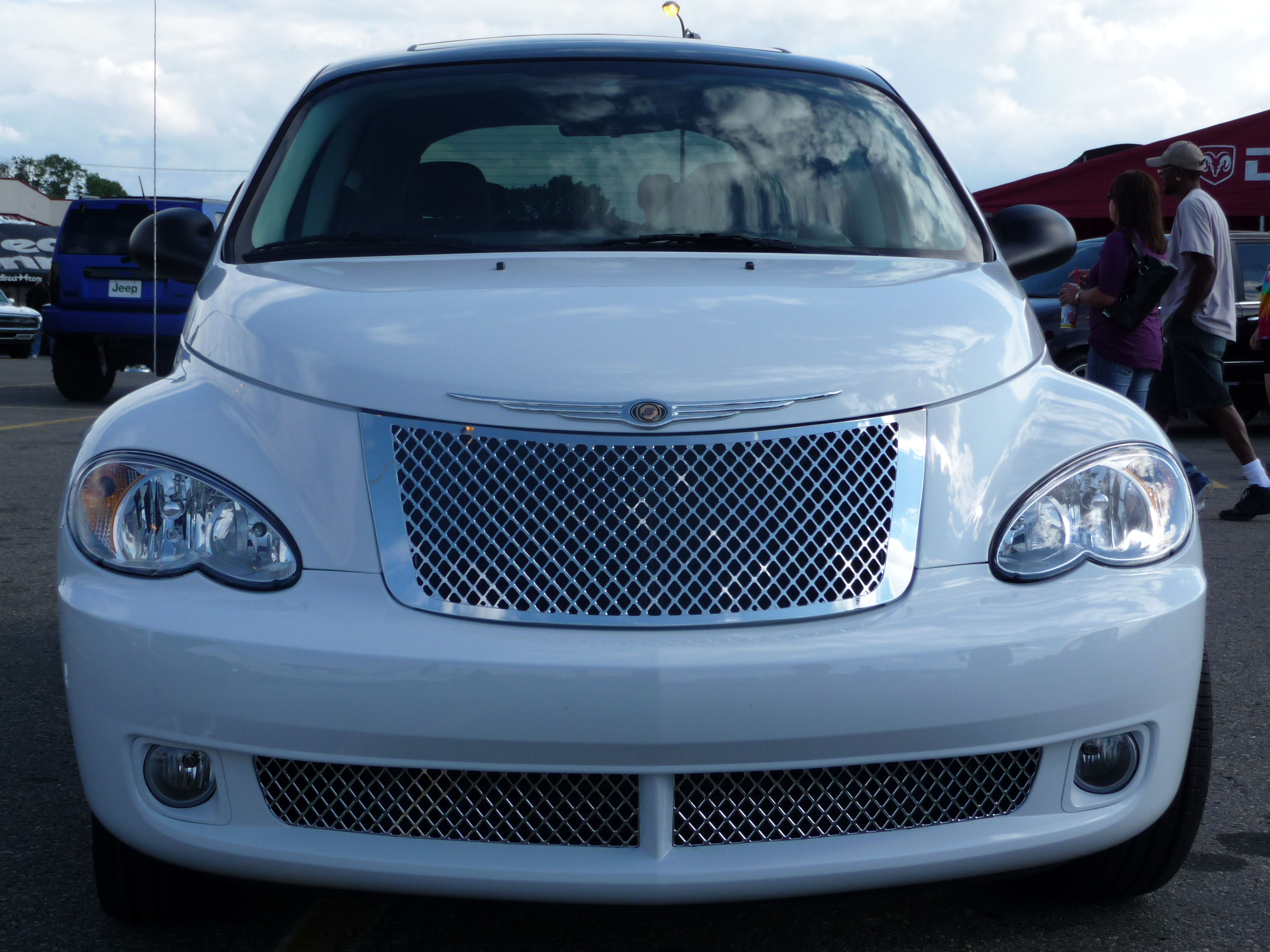 Front view of a 2009 model year Chrysler PT Cruiser Dream Cruiser Series 5 on display at the 2008 Woodward Dream Cruise.